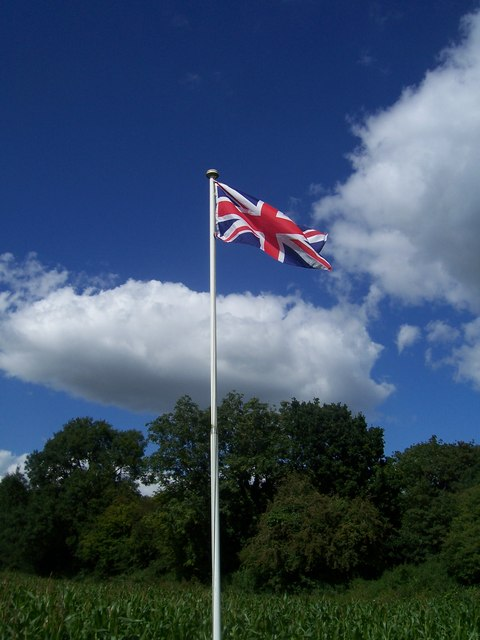 Bickleigh : Bickleigh Maize Maze - Flagpole